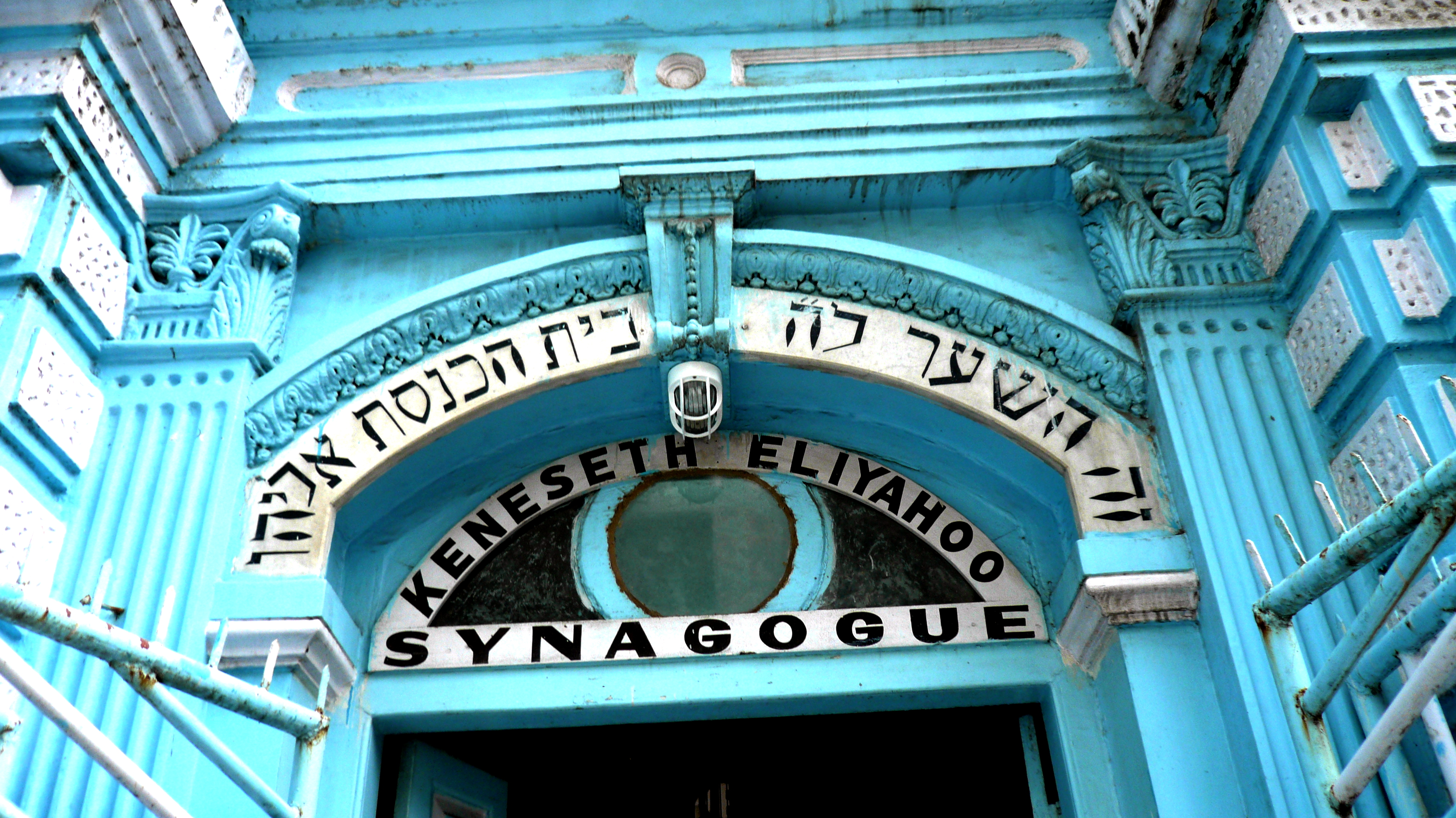 Kenesseth Eliyahu Synagogue, Colaba